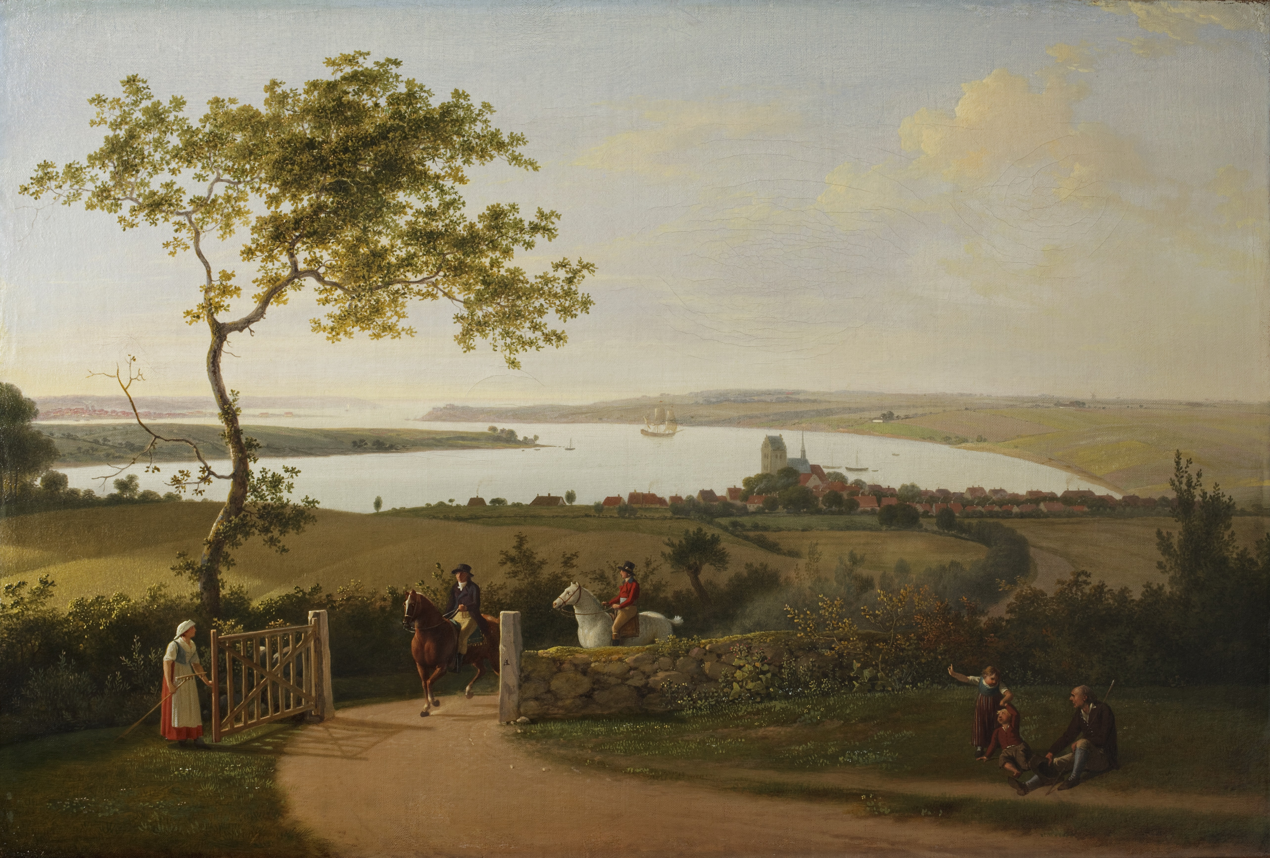 This view of Little Belt shows the town of Middelfart in the center and in the distance to the left the town of Fredericia in Jutland.